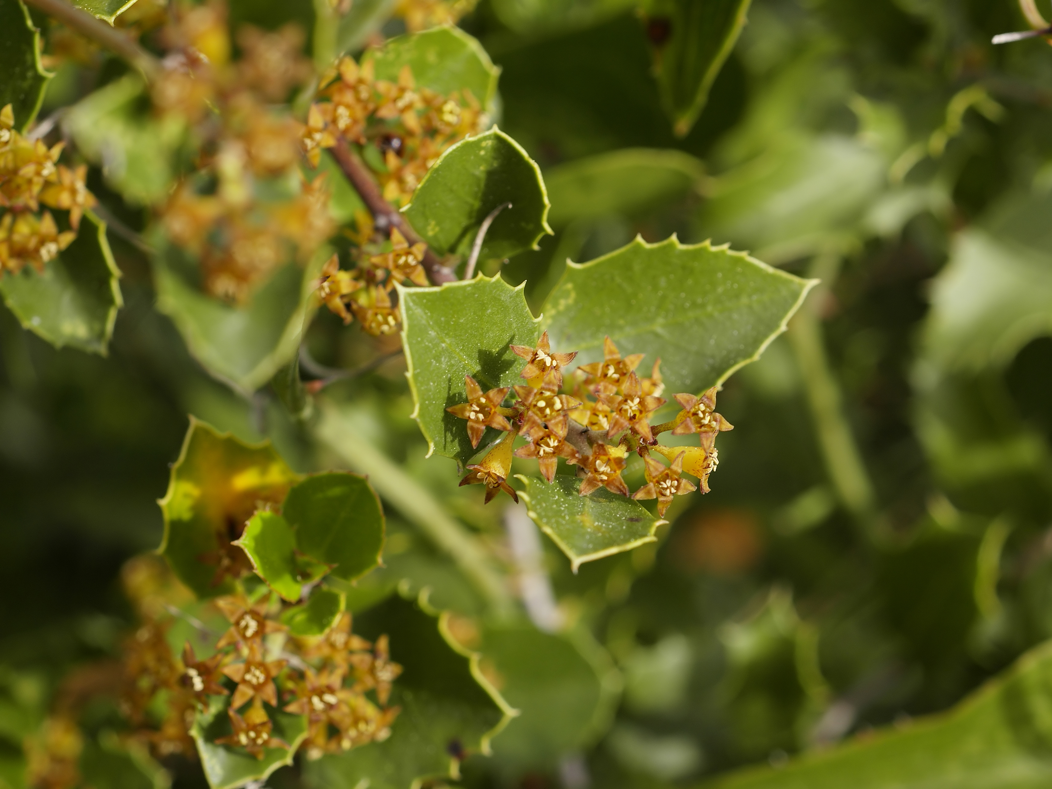 Mediterranean Buckthorn near el Perelló, Catalonia, Spain